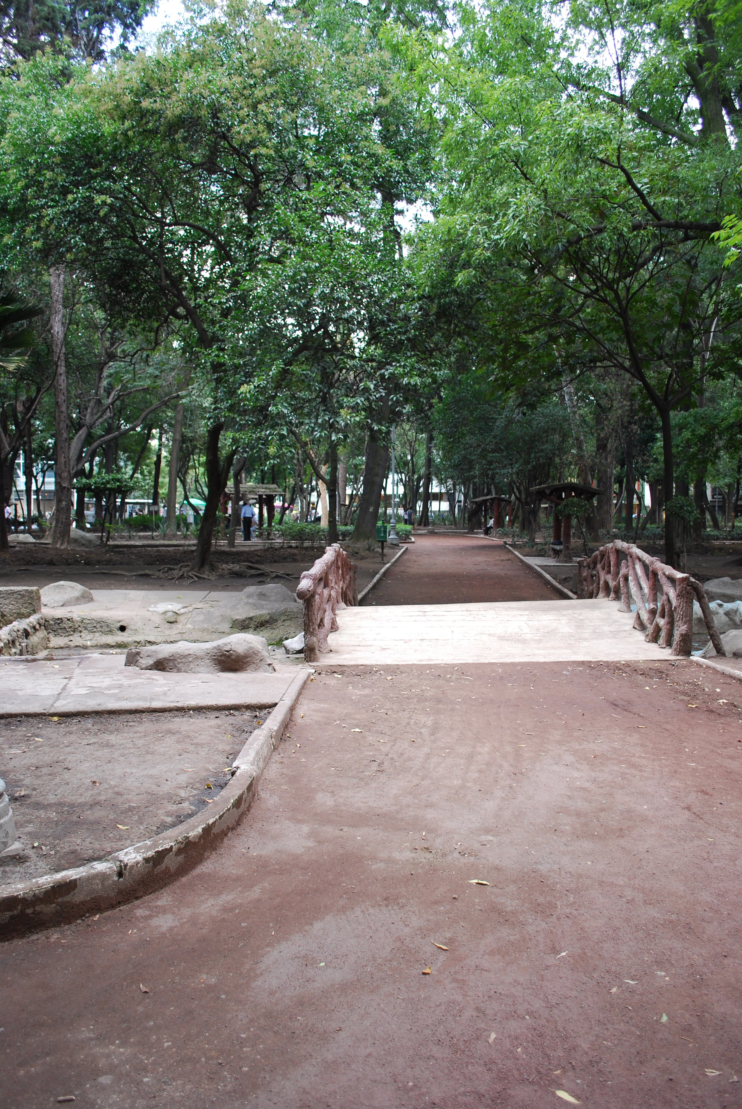 Path in Parque Mexico in Colonia Hipodromo in Mexico City